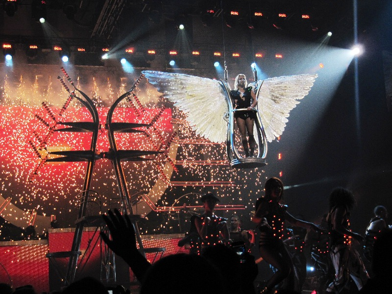 Britney Spears performing "Till the World Ends" at the Femme Fatale Tour on July 26, 2011.